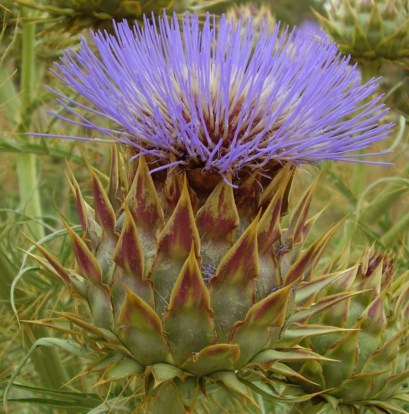 Cynara cardunculus (Artichoke thistle) - opened flower. In a Gully in Para Hills, Adelaide, South Australia